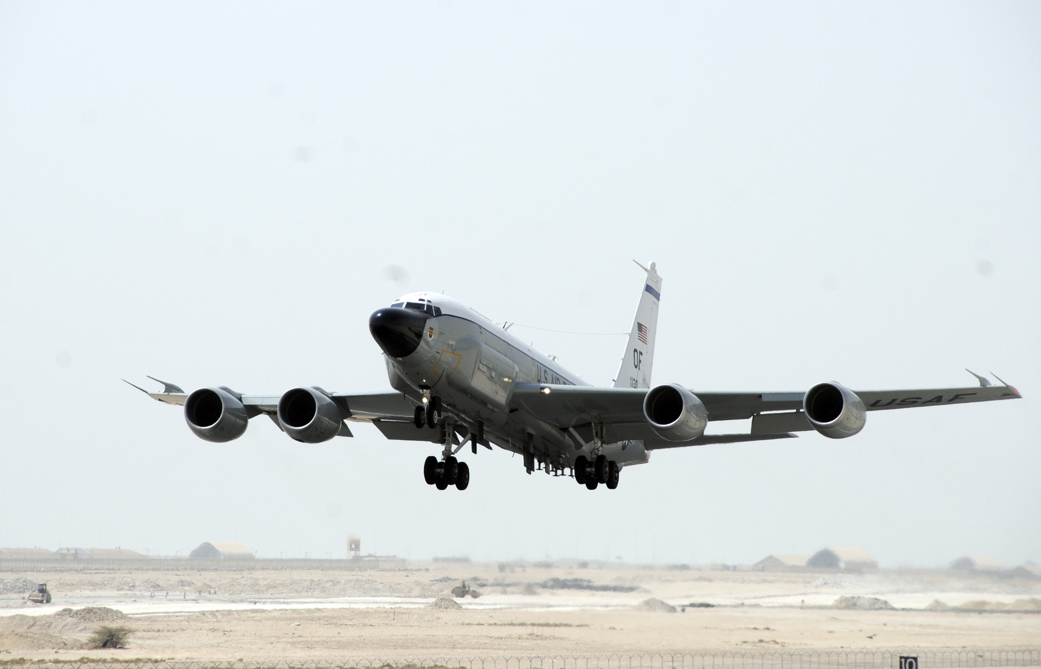 An RC-135 Rivet Joint from the 763rd Expeditionary Reconnaissance Squadron takes off for a mission, Aug. 26, 2008. The 763 ERS supports theater and national-level consumers with near real-time on-scene intelligence collection, analysis and dissemination.